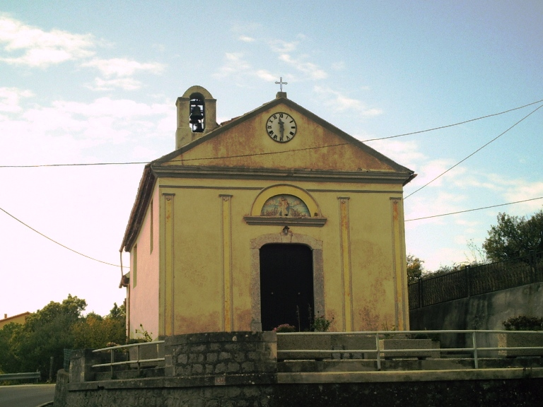 church of Brefaro